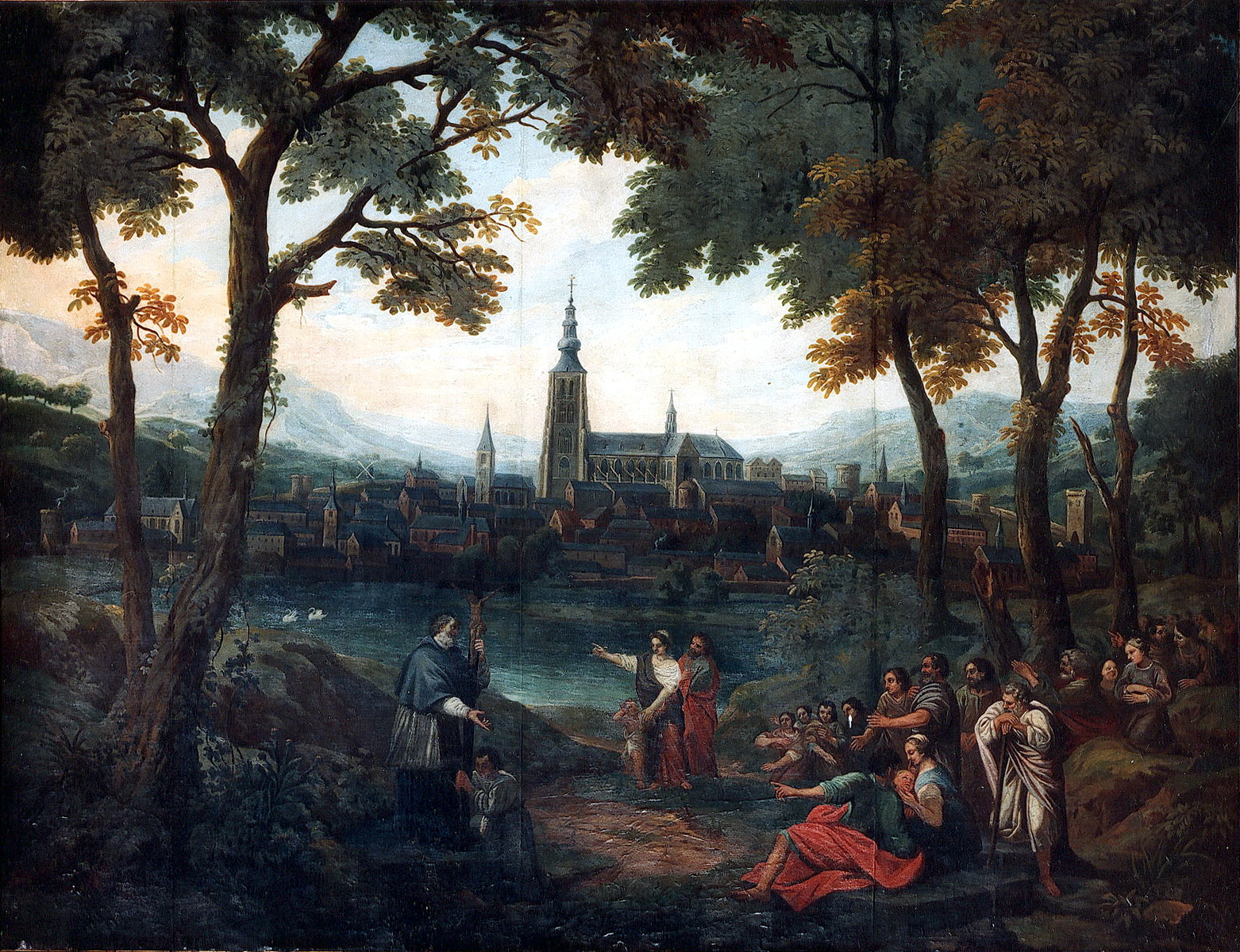 Jean-Baptiste Juppin & Emond Plumier, The preaching of Saint Matern (1722)